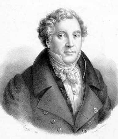 French pianist and composer Alexandre Piccinni (1779-1850).